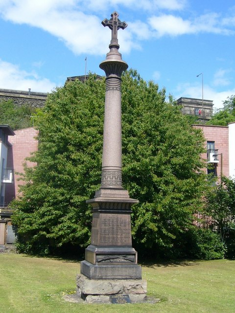 Soldiers Memorial, Canongate Kirkyard This cross is dedicated to the memory of all the soldiers who died in Edinburgh castle between 1692 and 1880. In the 12th century, David I granted the canons of Holyrood Abbey "leave to establish a burgh between that church and my burgh" (i.e. the Castle). This explains why Edinburgh Castle belongs to the parish of Canongate, despite its physical distance from the former burgh.